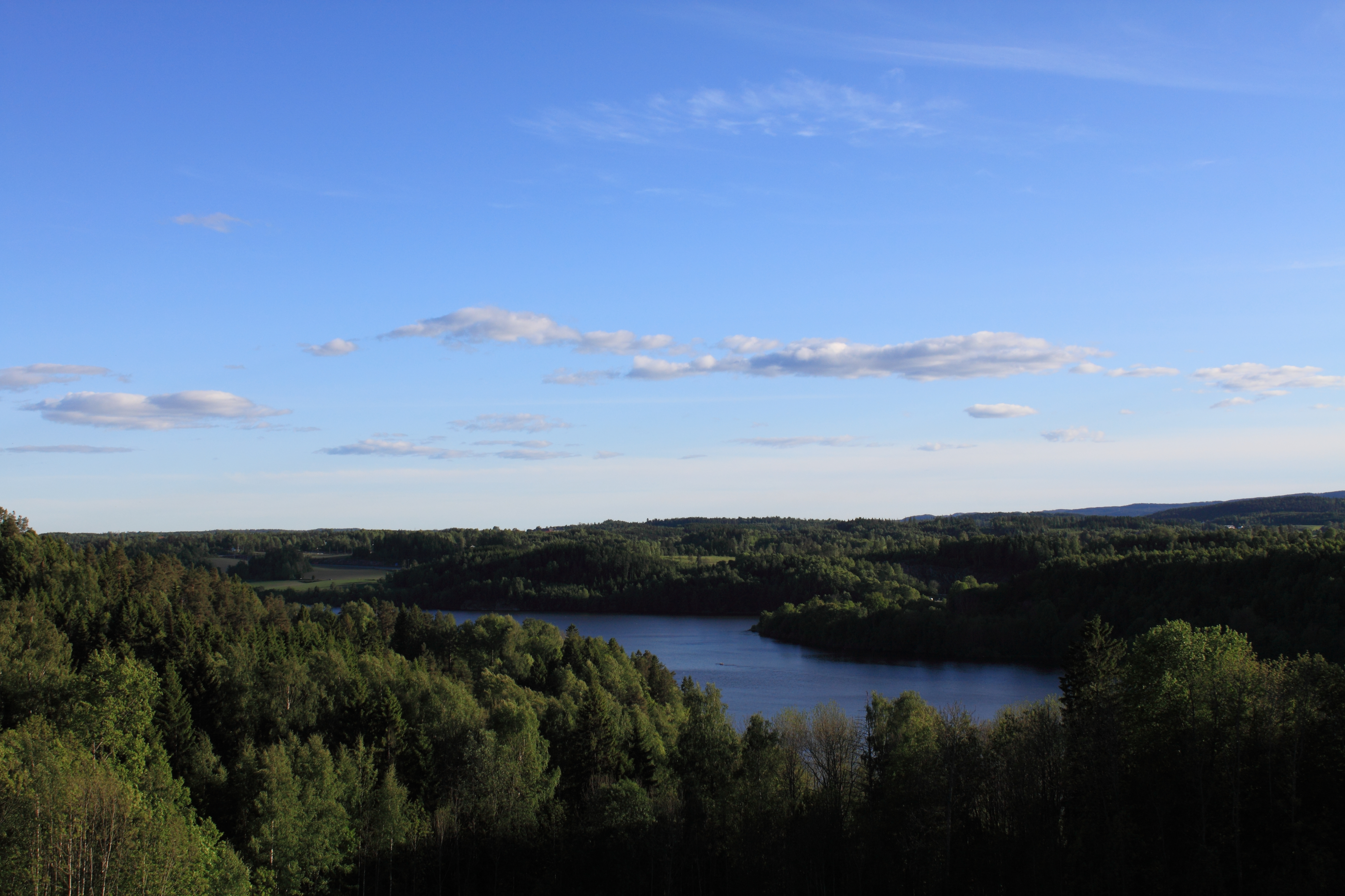 Photo of Årungen taken from north-east looking south-west.